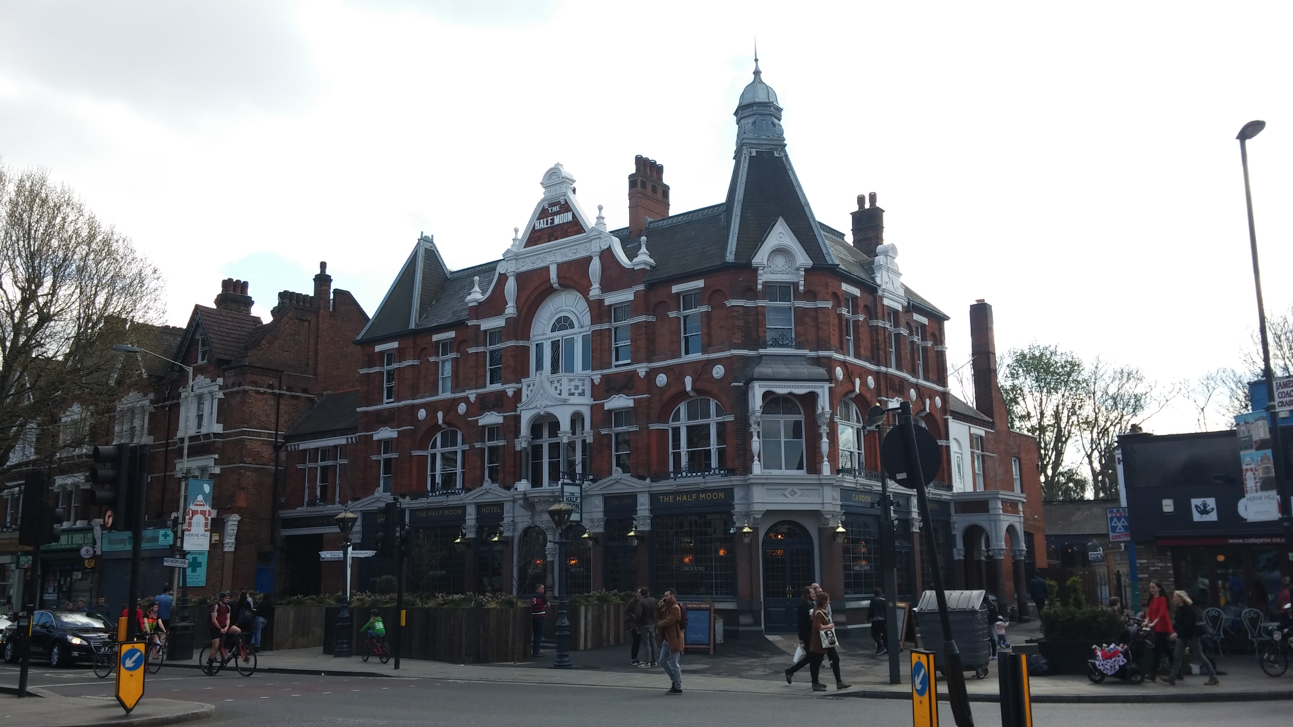 The Half Moon, Herne Hill after its reopening in April 2017.